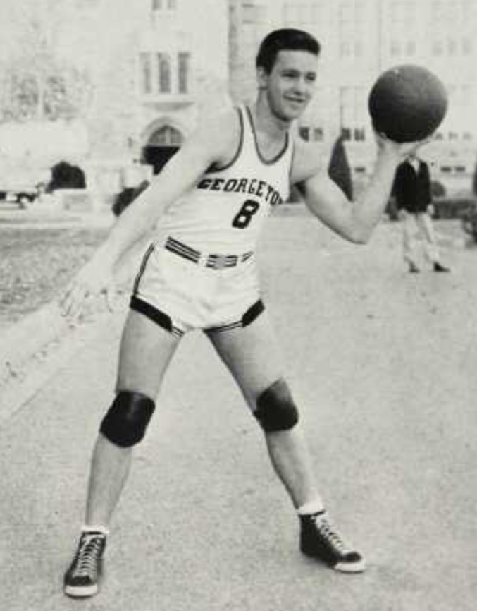 Georgetown University Hoyas basketball player Dan Kraus from the 1943 “Domesday Booke” yearbook.